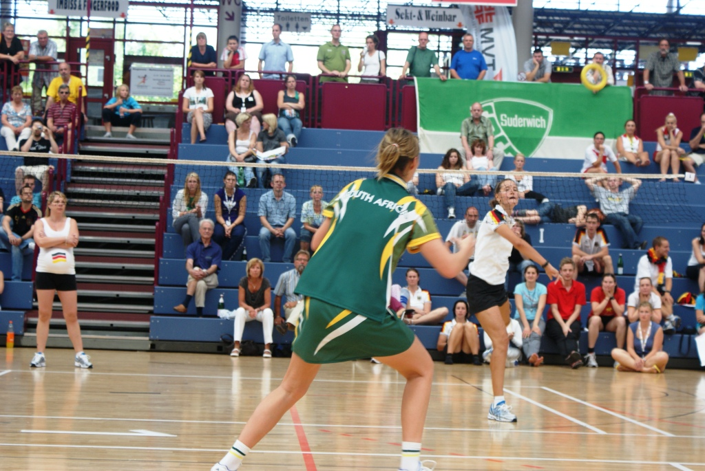 Ringtennis in action during the 2010 World Championships (women's singles).